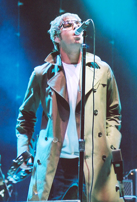 Liam Gallagher of Oasis performing at a concert in San Diego, 2005.